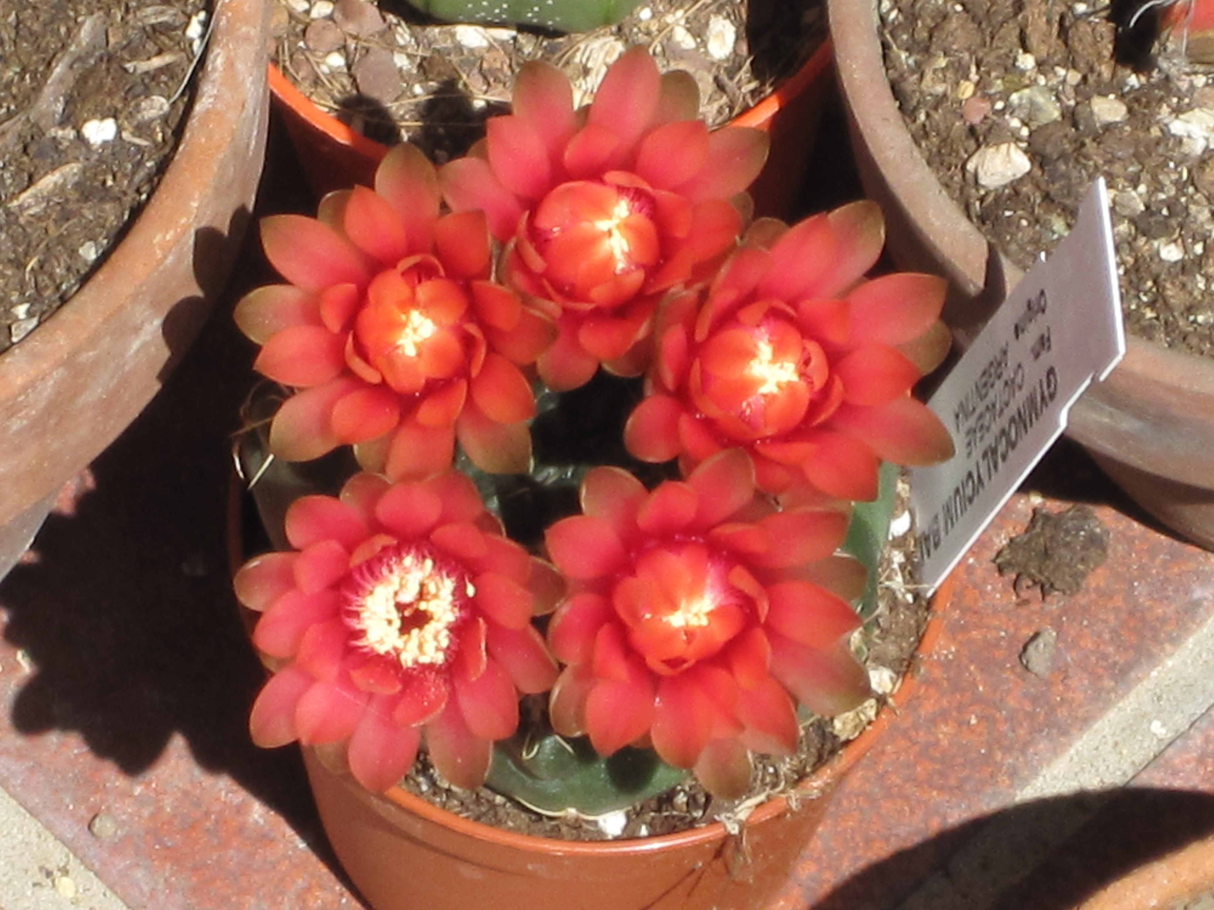 Gymnocalycium baldianum in flower